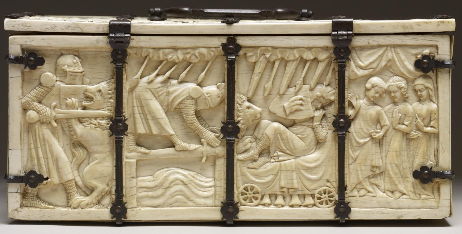 This splendid casket is carved with scenes from romances and allegorical literature representing the courtly ideals of love and heroism. In the center of the lid, knights joust as ladies watch from the balcony; to the left, knights lay siege to the Castle of Love, the subject of an allegorical battle. The remaining scenes on the casket are drawn from well-known stories about Aristotle and Phyllis, Tristan and Iseult, and tales of the gallant, heroic deeds of Gawain, Galahad, and Lancelot. The box may originally have been a courtship gift.